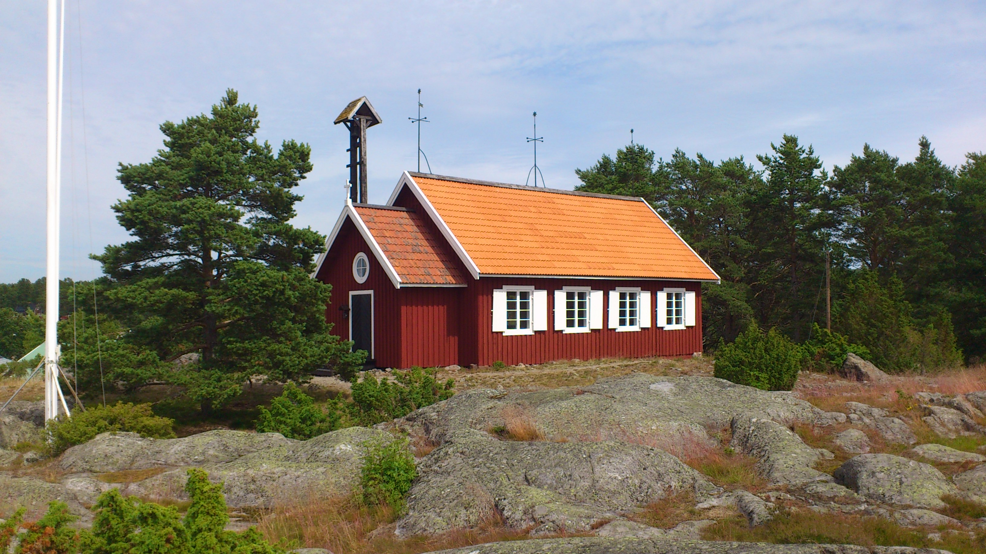 Hölick chapel